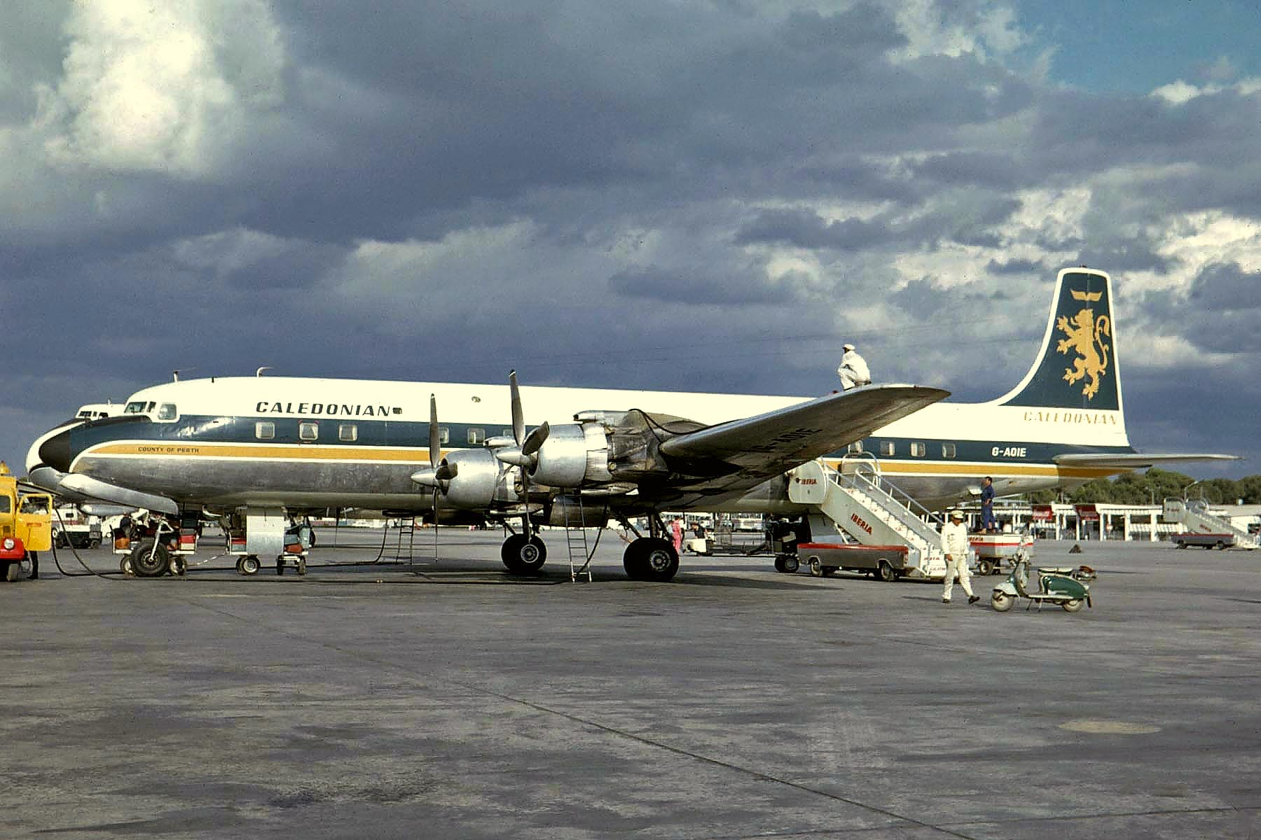 A picture of an airplane (name of it is on the file name).